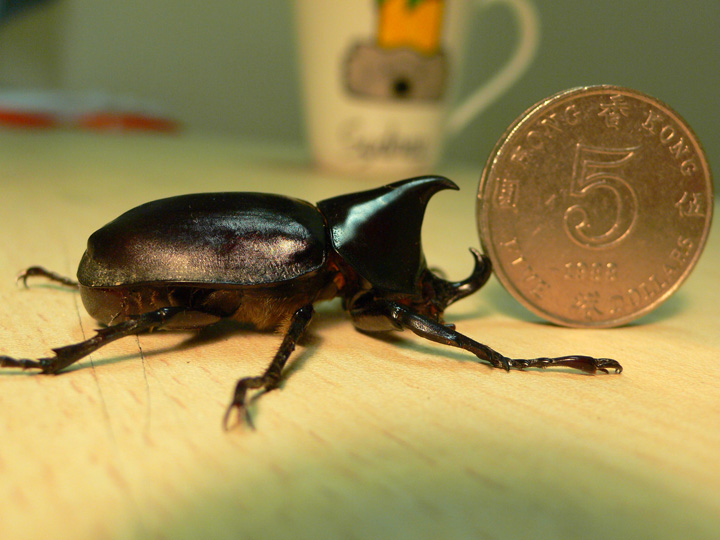 This Rhinoceros beetle was found in PGH6, The Chinese University of Hong Kong. The picture was taken by my person on July 18th, 2006.